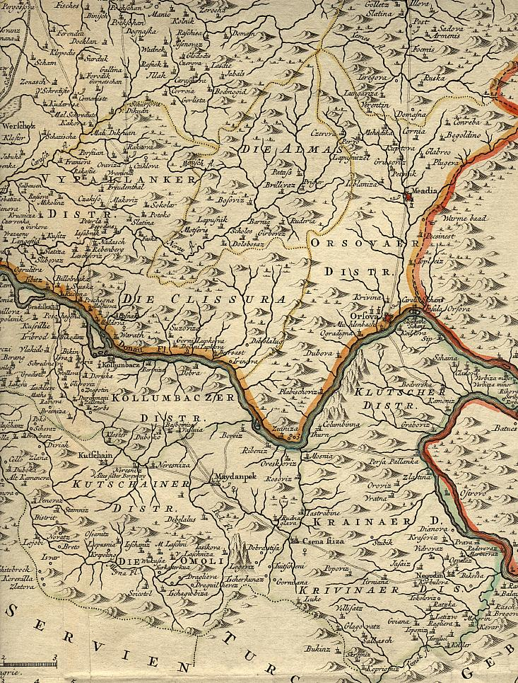 Fragment from the Map of Banat of Temesvár